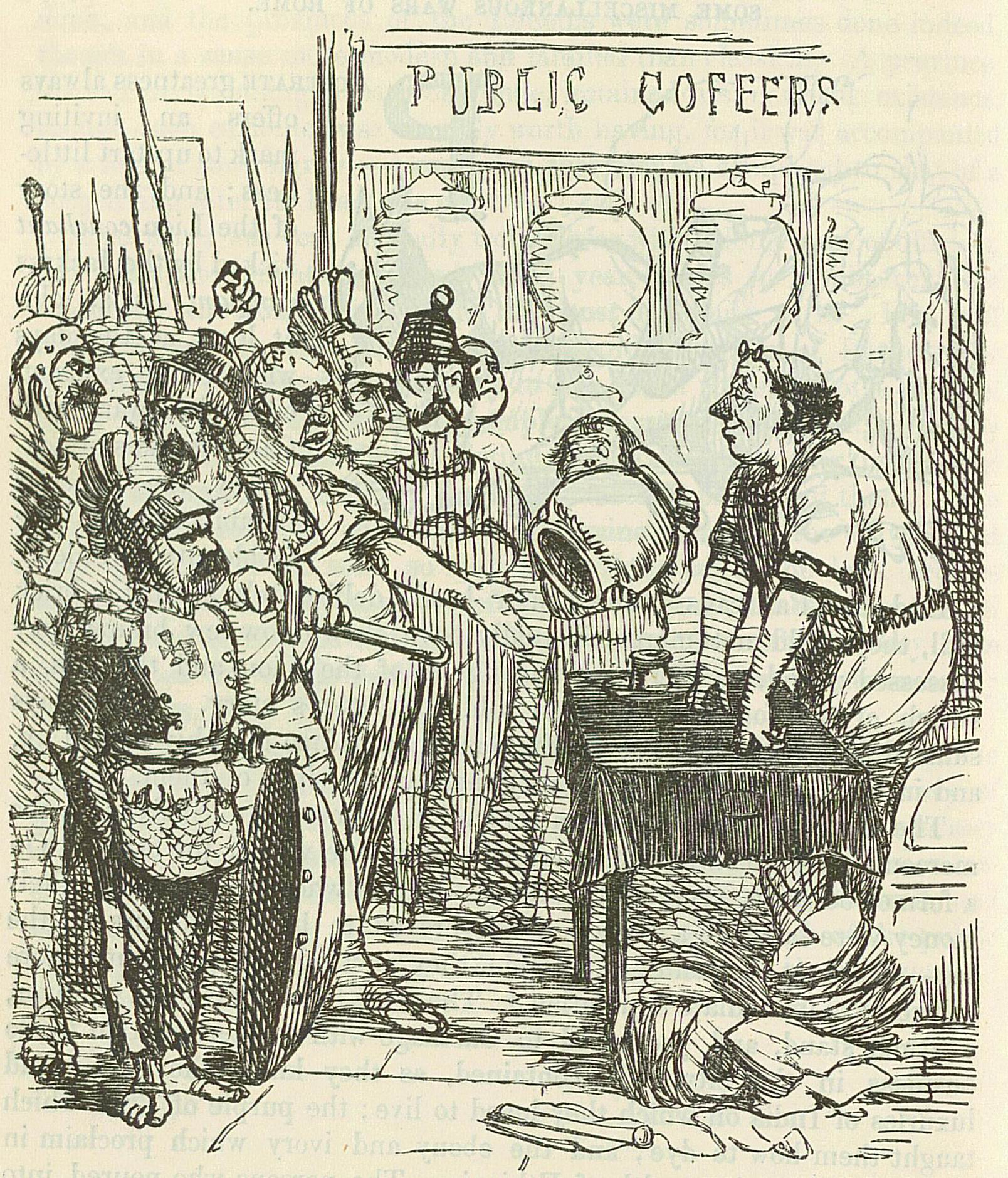 Image by John Leech, from: The Comic History of Rome by Gilbert Abbott A Beckett. Bradbury, Evans & Co, London, 1850s Hanno announcing to the Mercenaries the Emptiness of the Public Coffers